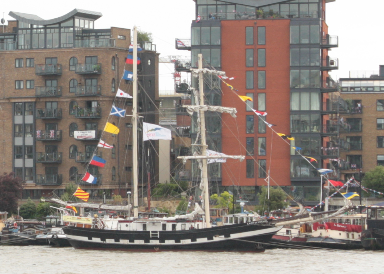 Tall ship,Brigantine the Lady of Avenel Saturday 3 June at the Thames Diamond Jubilee Pageant of Queen Elizabeth II. Owned and operated by Heritage Marine Ltd based in Maldon Essex